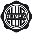 Escudo del Club Olimpia